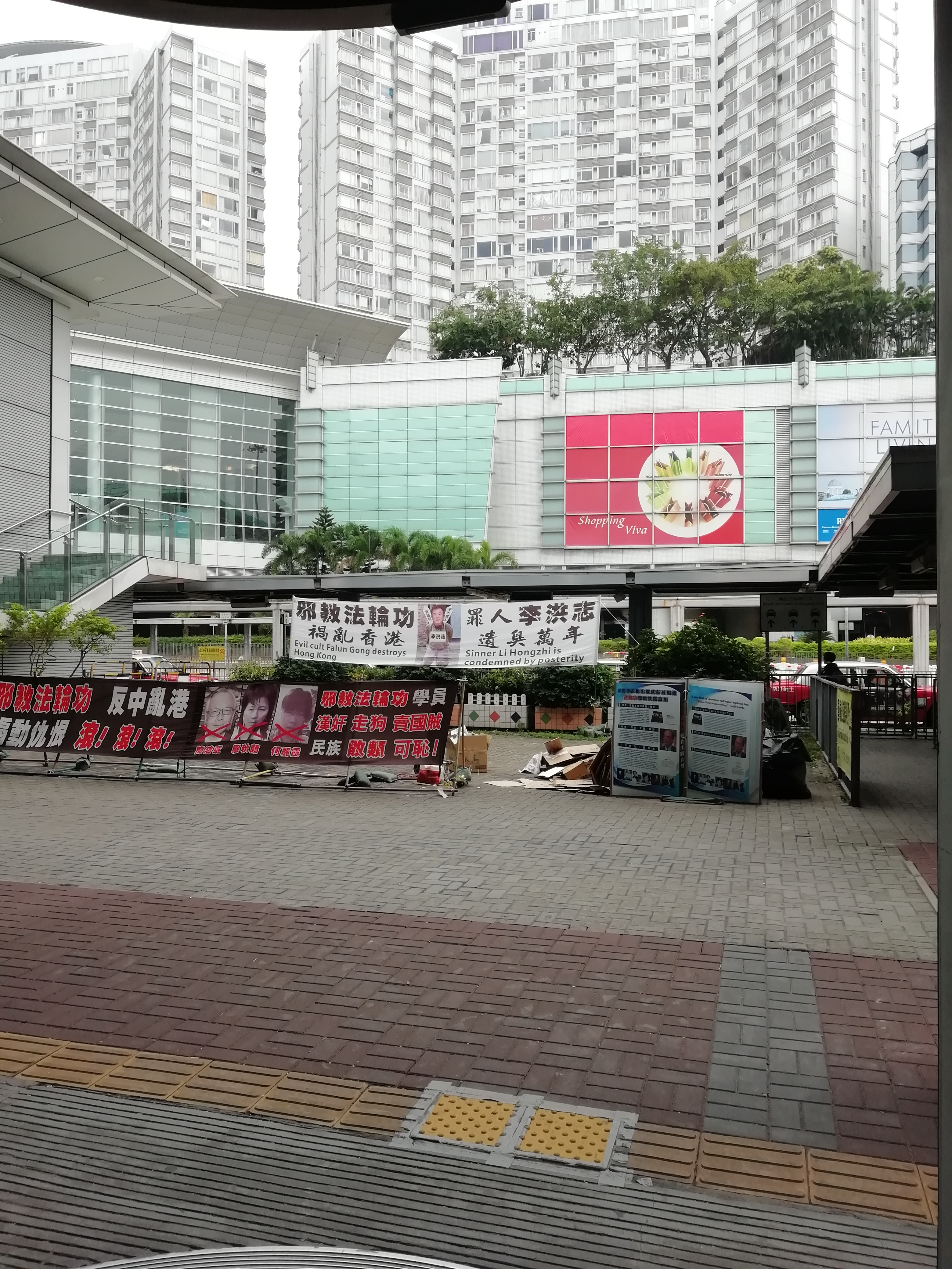 Anti-Falun Gong advtisements, which shown at Hung Hom Station. 中文（中国大陆）: 红磡站外的反法轮功宣传广告